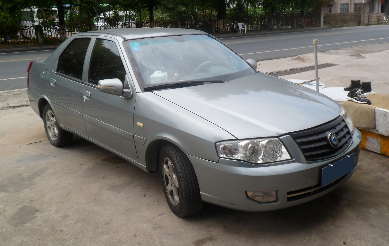 Shanghai Maple Haifeng photographed in Tangkou, Anhui province, China.